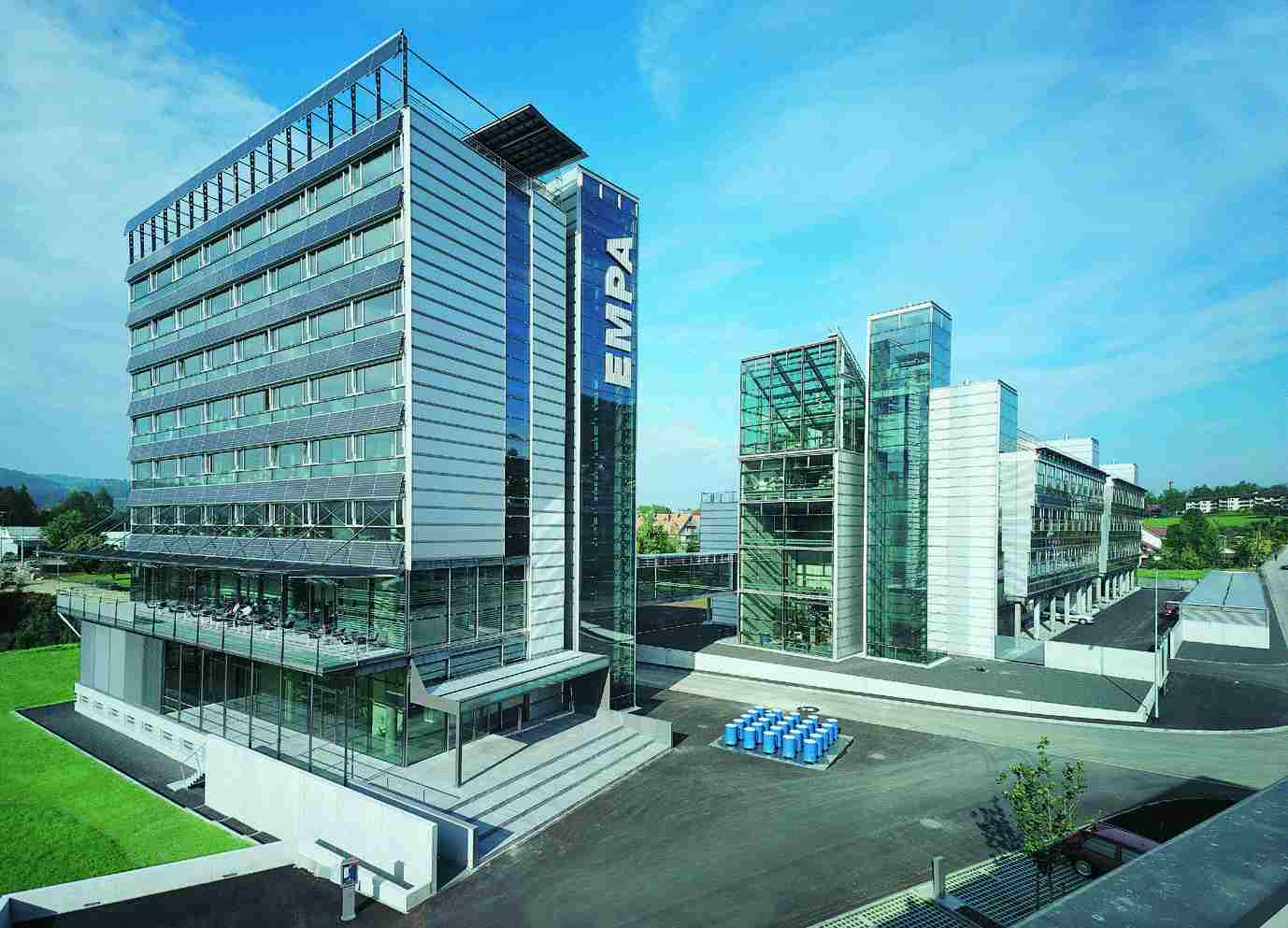 Empa building in Sankt Gallen, Switzerland